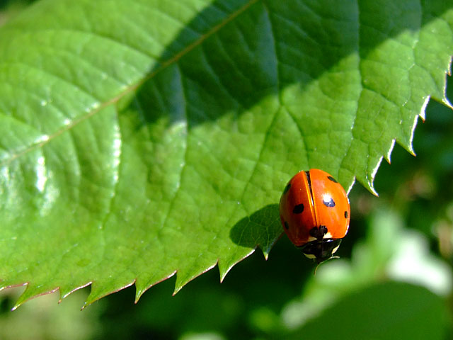 Coccinellidae